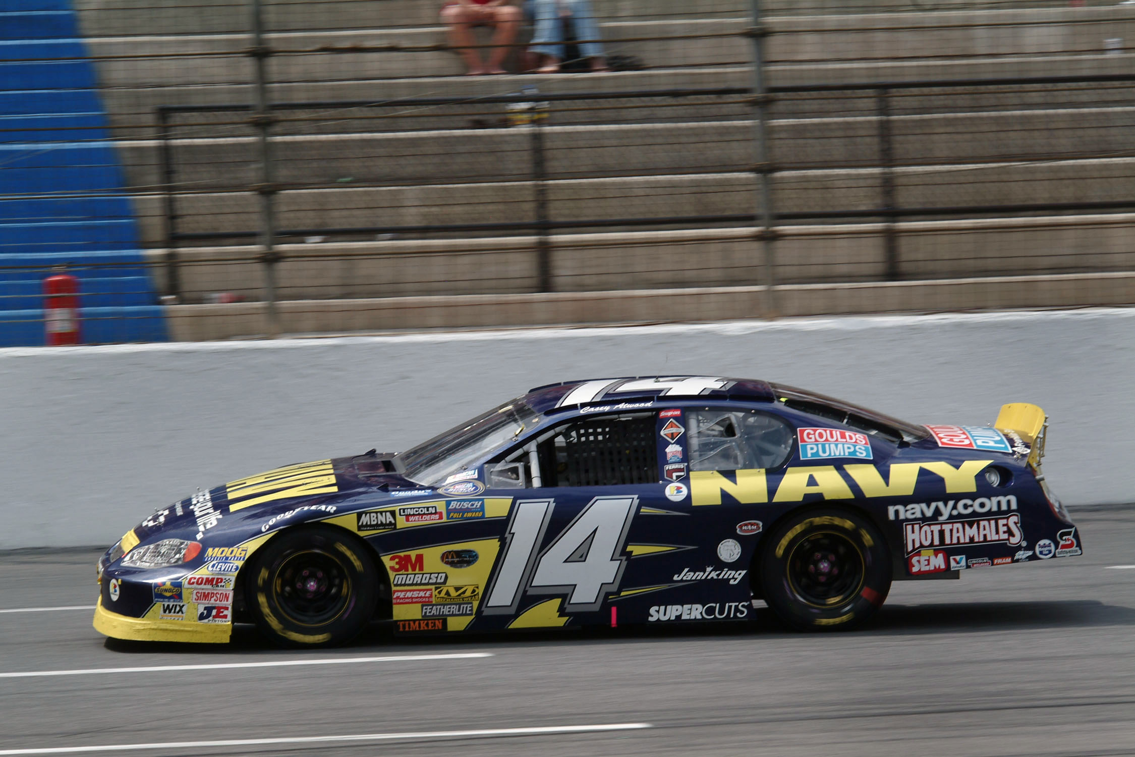 Charlotte, N.C., (May 29, 2004) - The Navy sponsored NASCAR Bush Series No. 14 Chevrolet Monte Carlo, driven by Casey Atwood, speeds down the track during the NASCAR Busch Series, Carquest Auto Parts 300 at Lowe's Motor Speedway in Charlotte, N.C. U.S. Navy photo by Chief Photographer's Mate Johnny Bivera (RELEASED)